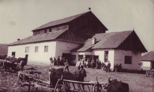 mill in Reteag village, Romania (1949)